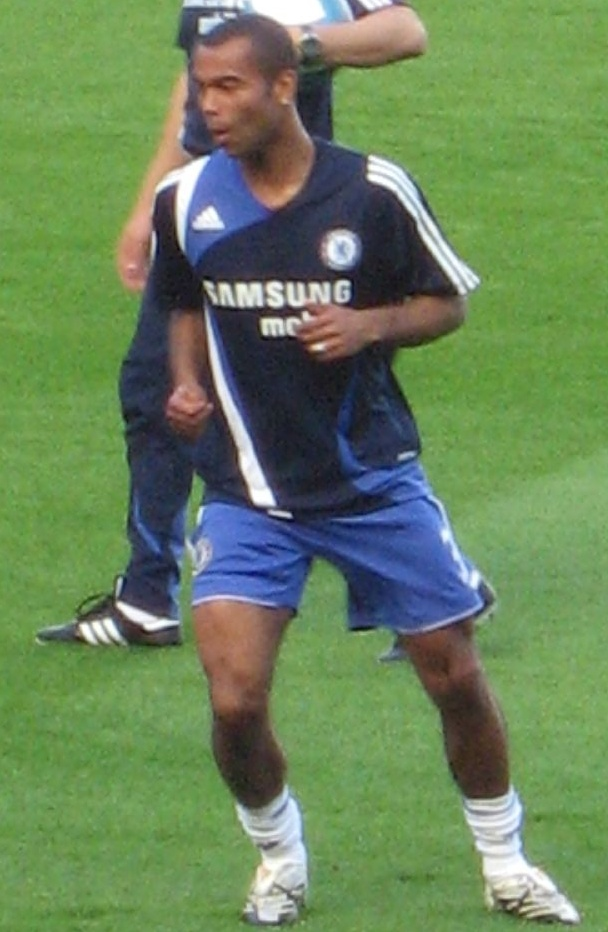 Ashley Cole